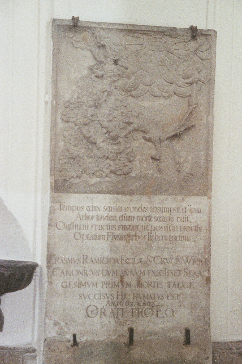 Memorial plate in Wrocław-Holy cross church